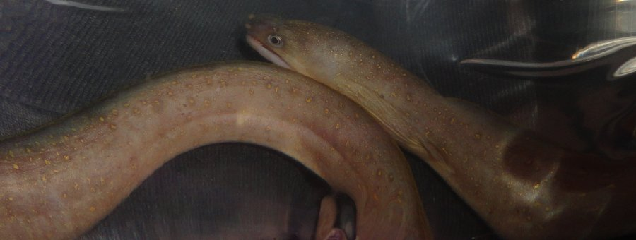 Commonly known as freshwater moray, freshwater snowflake eel, or Indian mud moray.